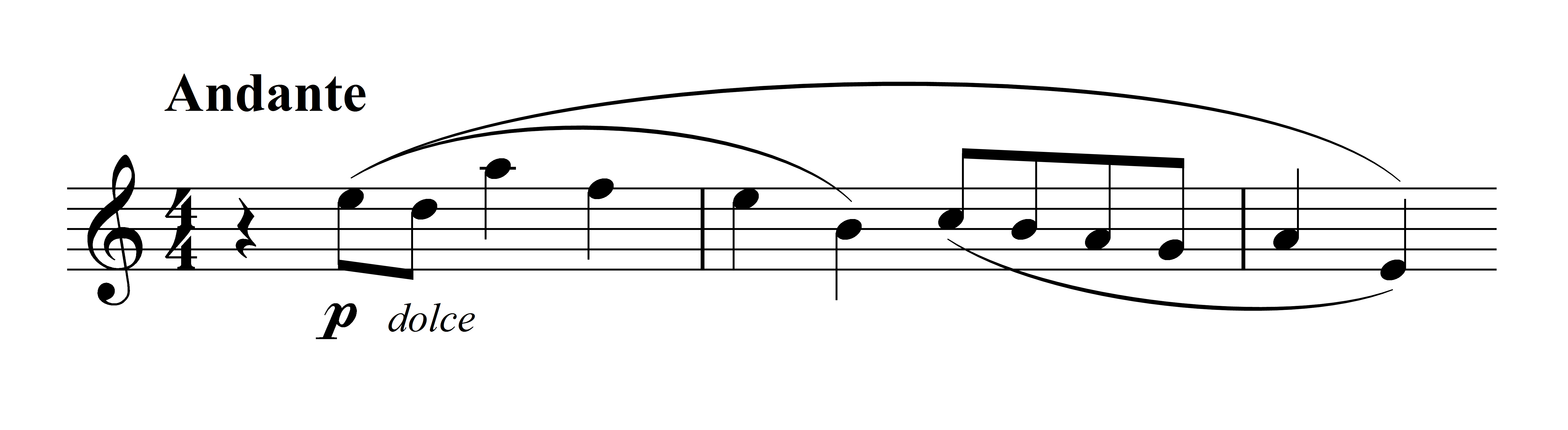 Opening melody of Sergei Prokofiev's 3rd Piano Concerto.